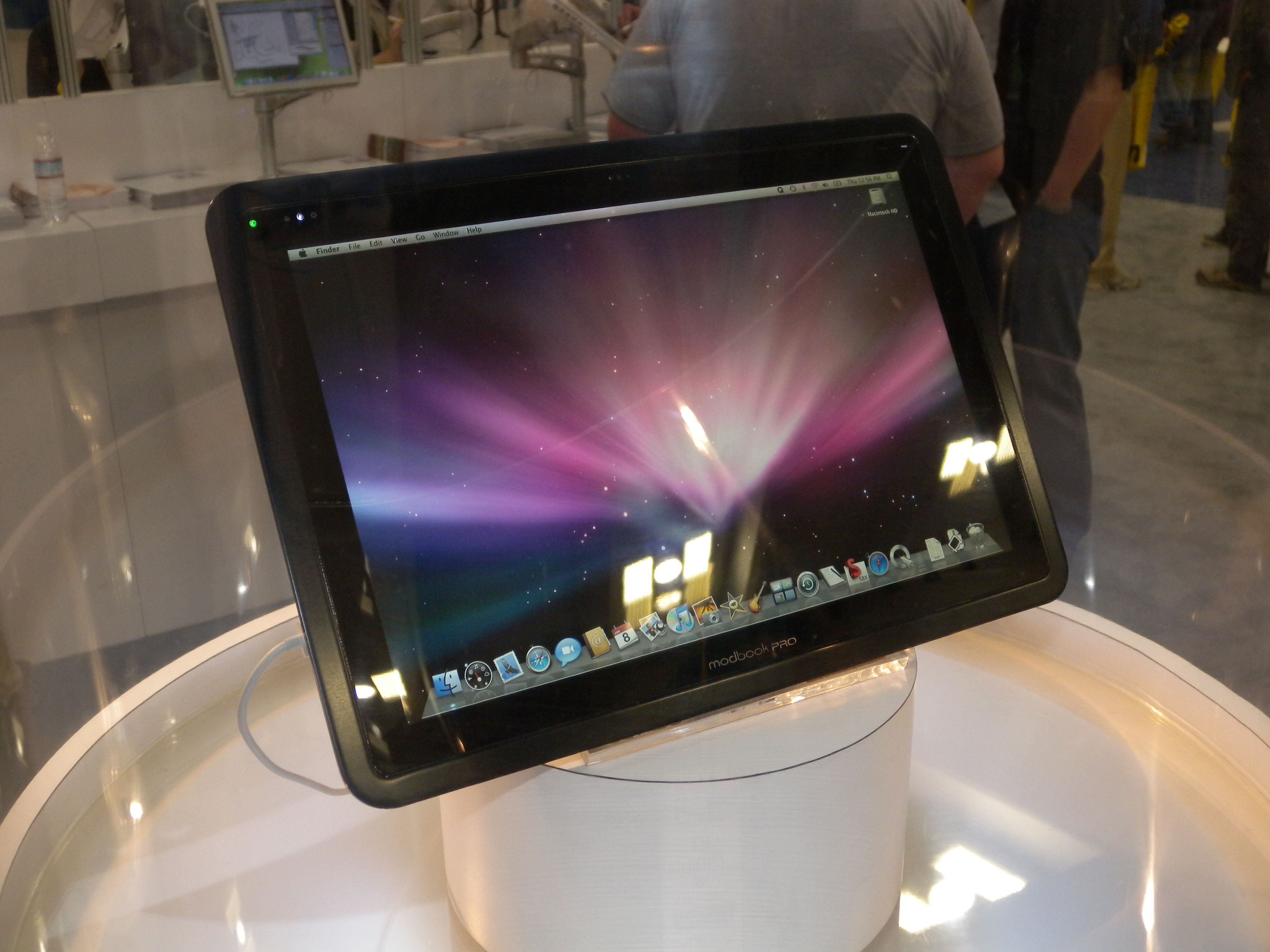 A Modbook Pro on display at the Axiotron booth during Macworld 2009